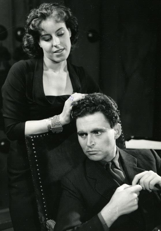 Margaretha Krook and Claes Sylwander starring in Ugo Betti's The Queen and the Rebels